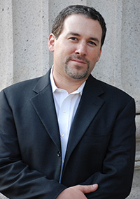 Photograph of author Jonathan Schanzer